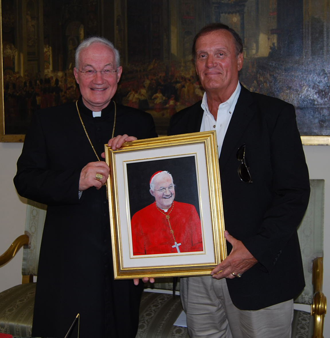 Christopher Markwell presenting Marc Cardinal Ouellet with his portrait - Vatican, 2013